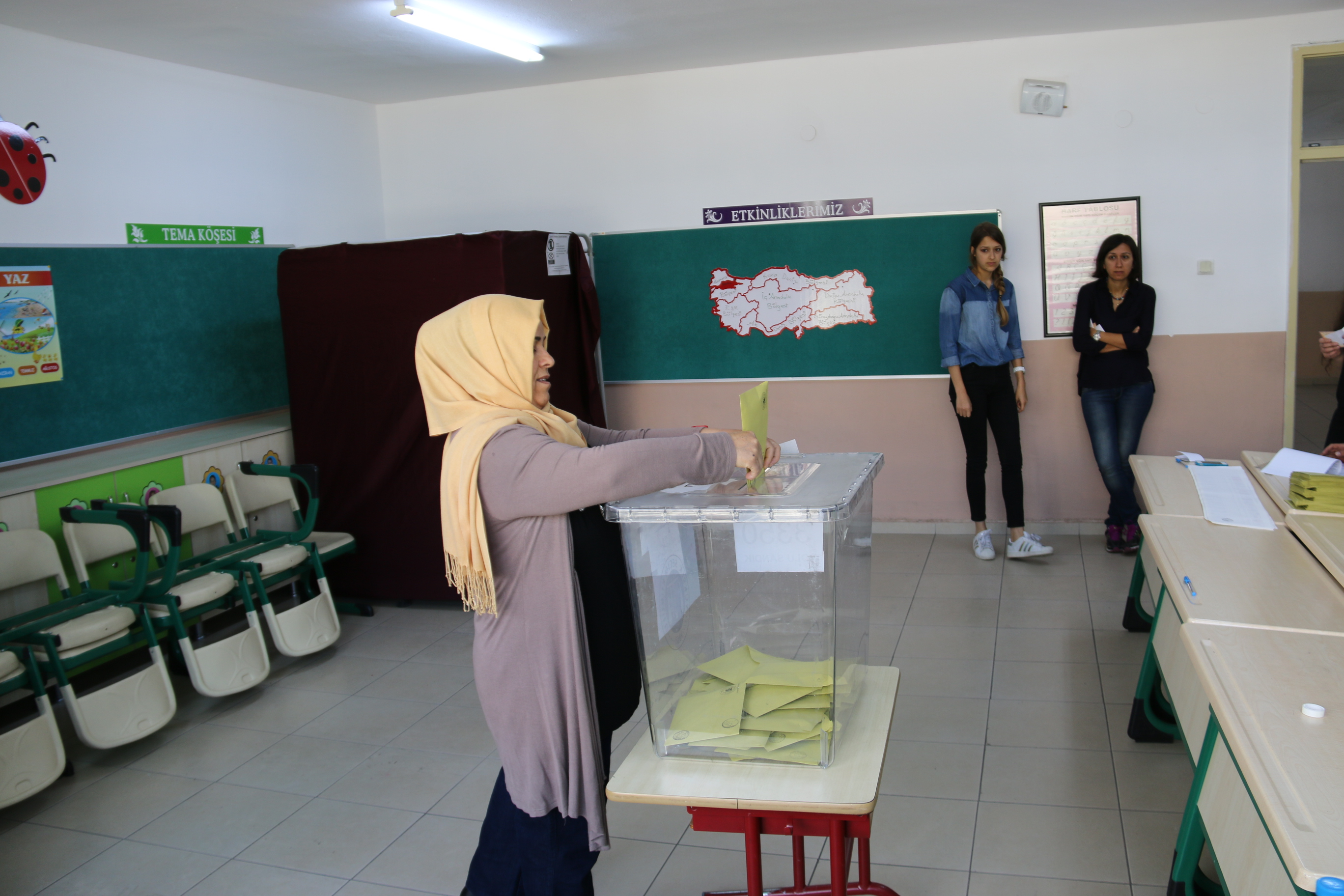 Voting at a polling station in Ankara, 7 June 2015